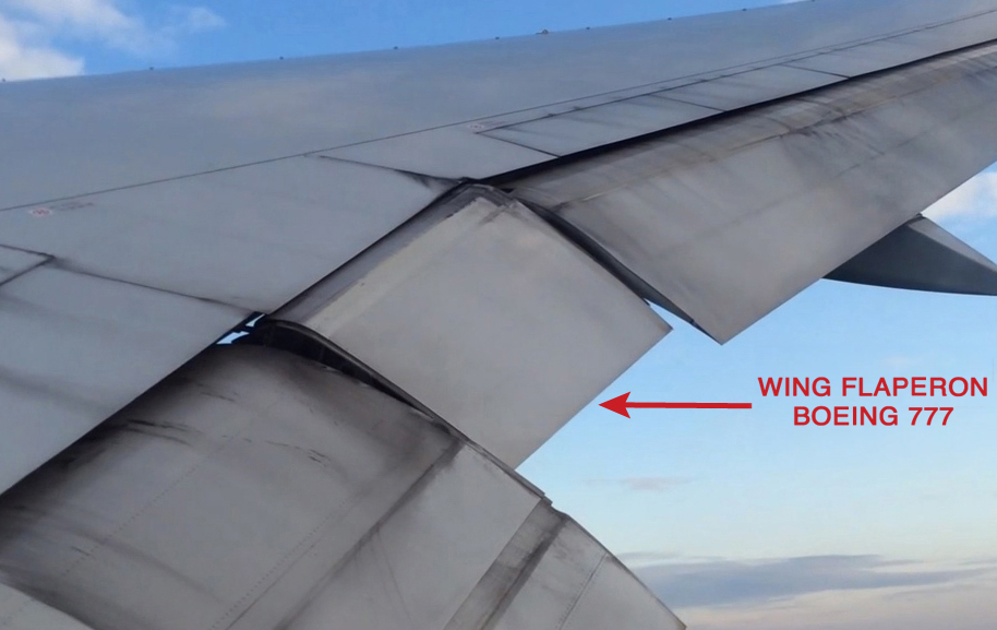 Boeing 777 right wing flaperon (Part No. 657)